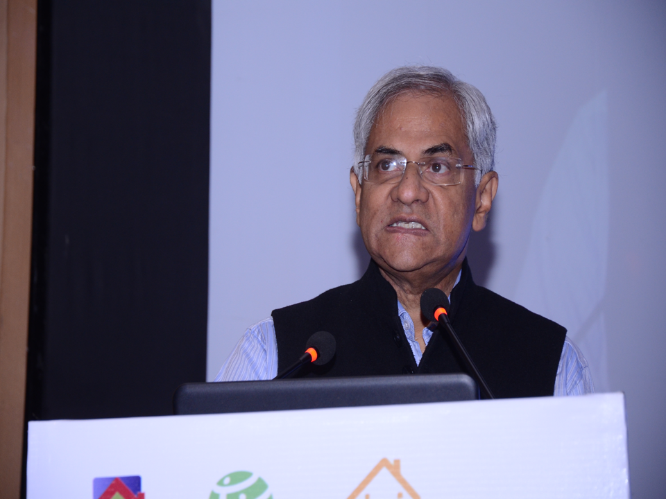 Inaugural Dr P Padmanabhan Memorial Oration Award delivered by Mr Keshav Desiraju Former Health Secretary Government of India